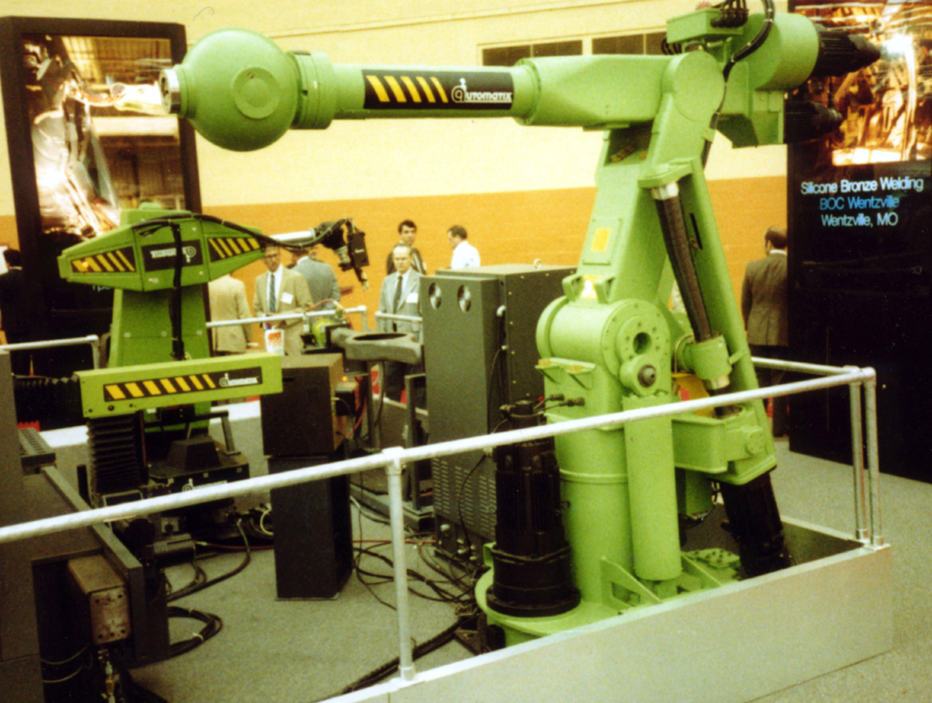 Automatix robots on display at the Robots 85 show in Detroit, Michigan.